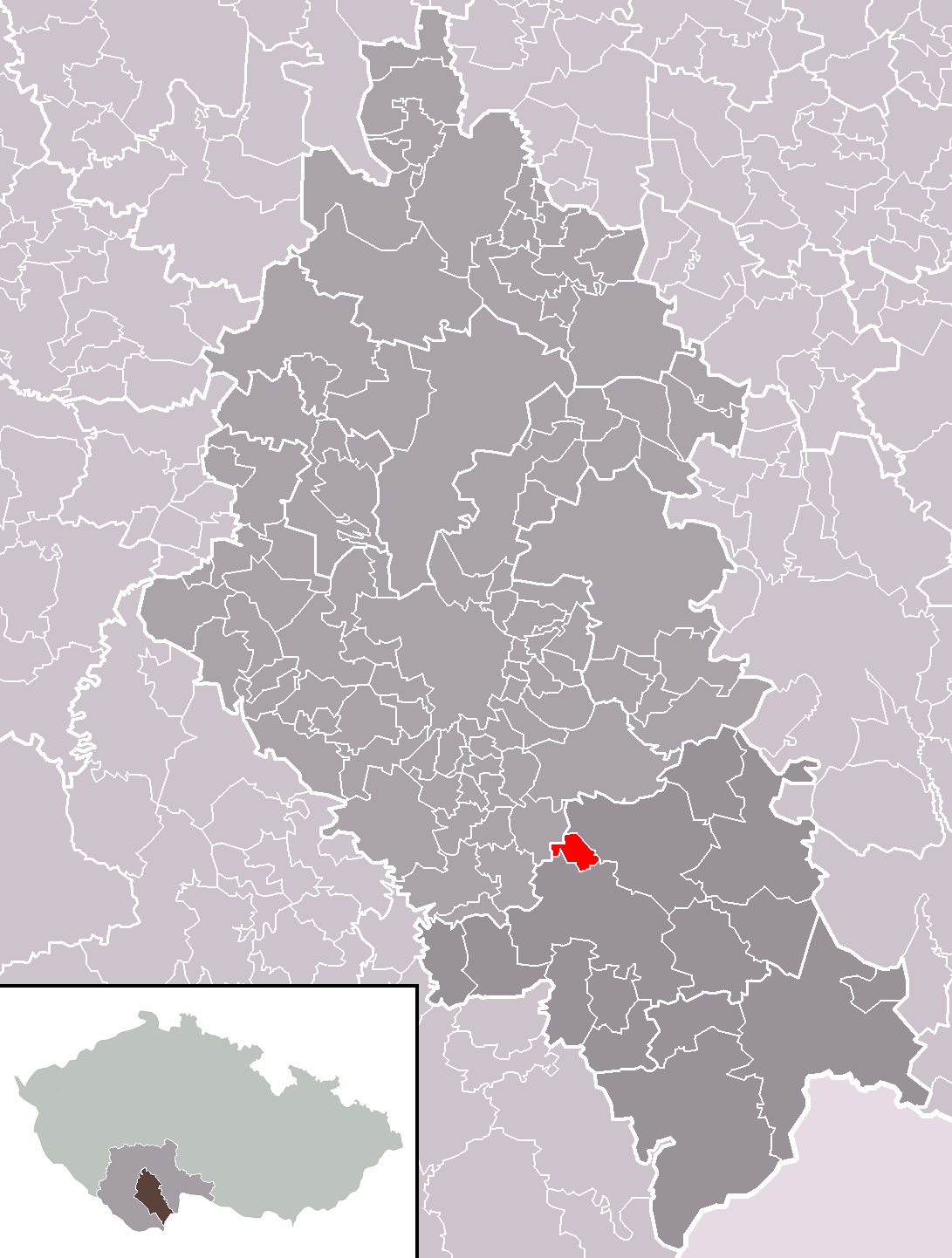 Location of Ostrolovský Újezd municipality within České Budějovice District and administrative area of Trhové Sviny as a Municipality with Extended Competence.